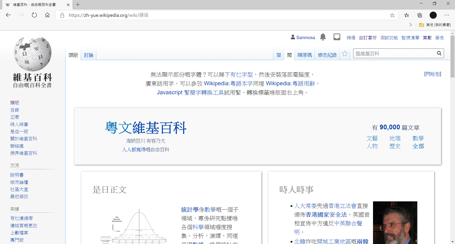 Using Microsoft Edge based on Chromium source code to browse Cantonese Wikipedia Main page.